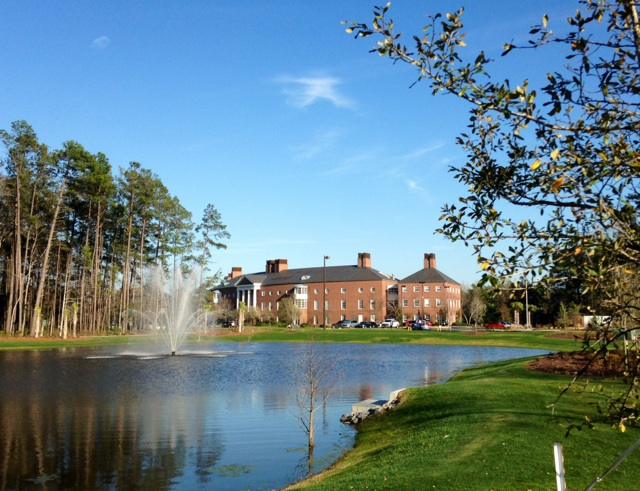 The E. Craig Wall, Sr. College of Business at Coastal Carolina University in Conway, South Carolina